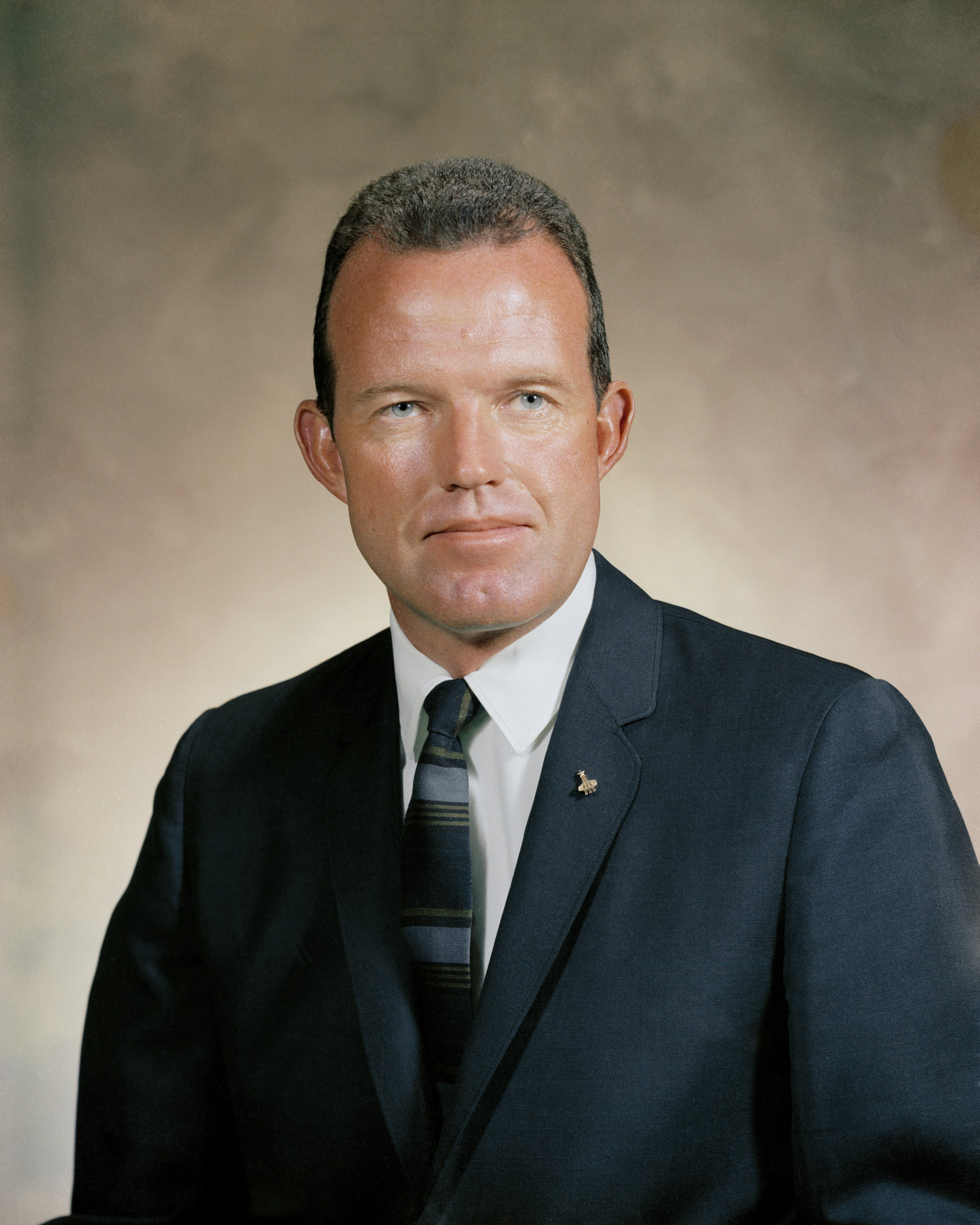 Portrait of Astronaut Leroy Gordon Cooper, Jr.